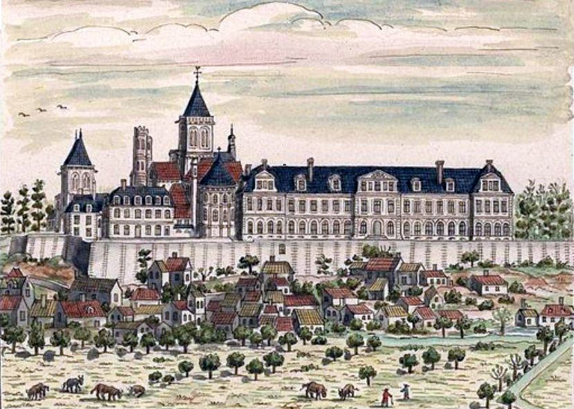 Abbaye aux Dames, Caen in 1702